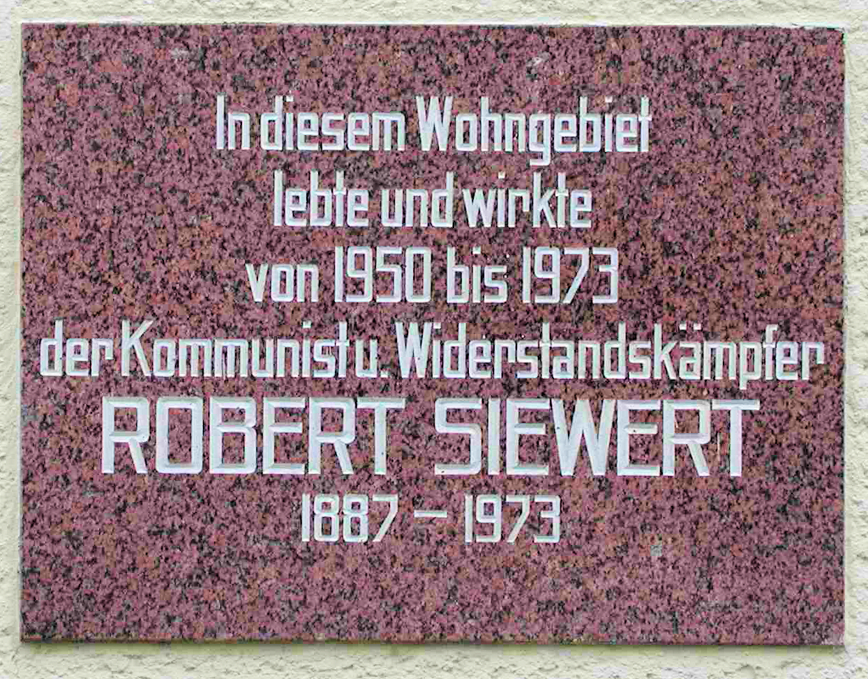 Memorial plaque, Robert Siewert, Roemerweg 36, Berlin-Karlshorst, Germany Koordinate:52°29′30″N 13°31′27″E / 52.49167°N 13.52417°E